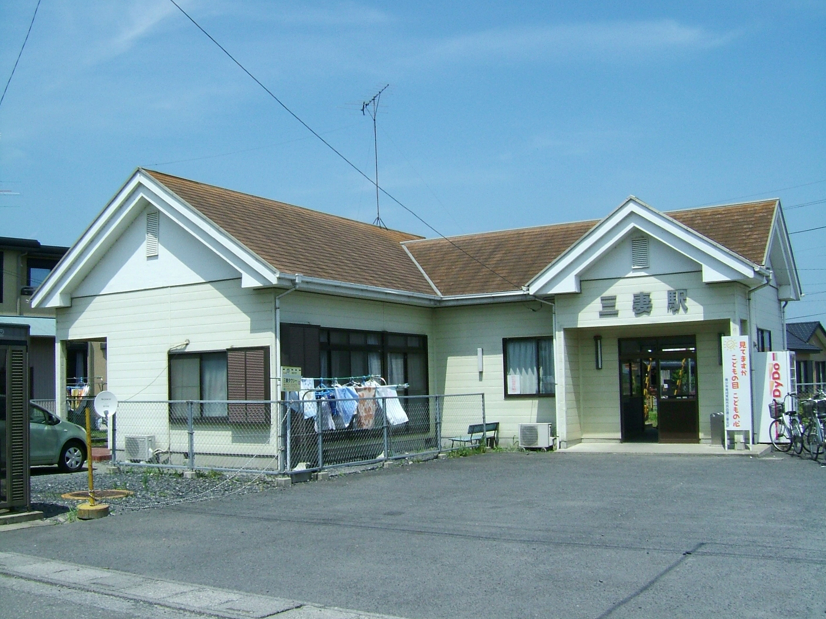 Mitsuma Station building (Kanto Railway Jōsō Line)